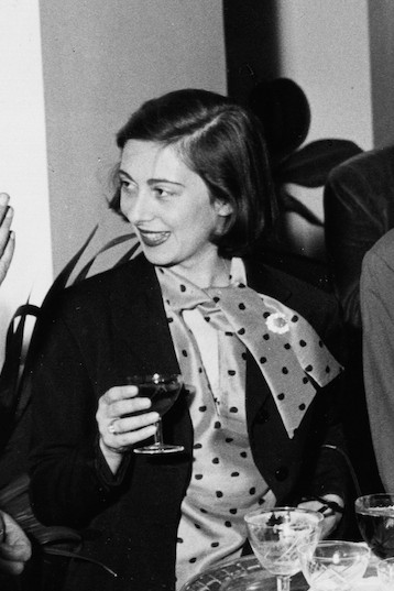 The Italian architect Cini Boeri in 1954 in Milan